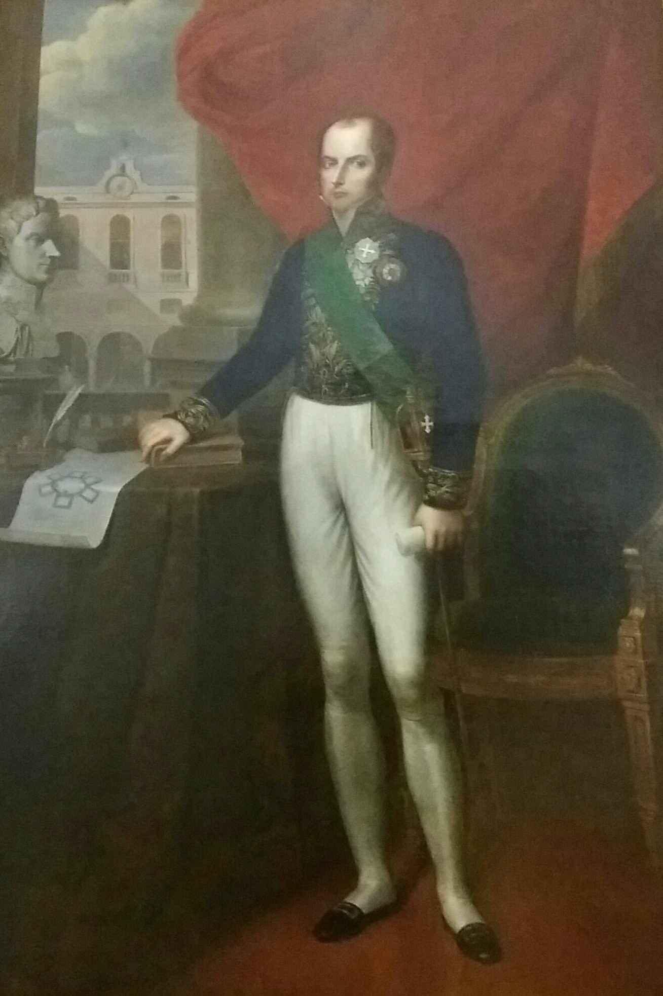 Antonio Brignole-Sale painted by Santo Panario